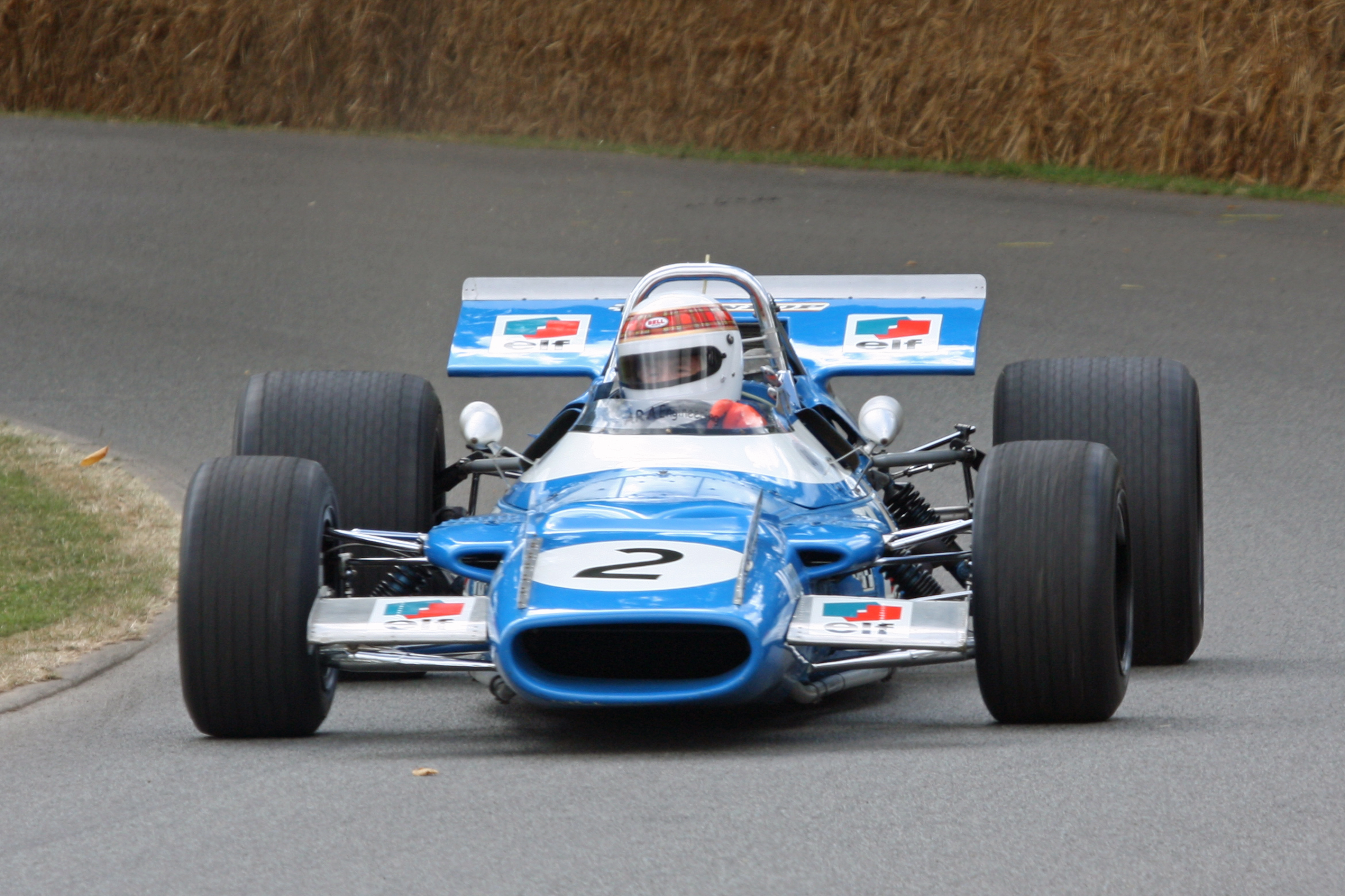 The Matra MS80 being demonstrated at the 2009 Goodwood Festival of Speed